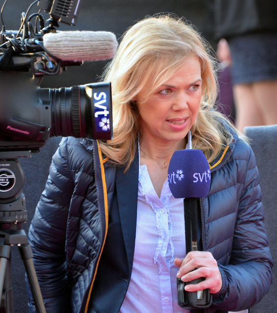 Yvonne Åstrand during the opening of ABBA: The Museum May 6, 2013.